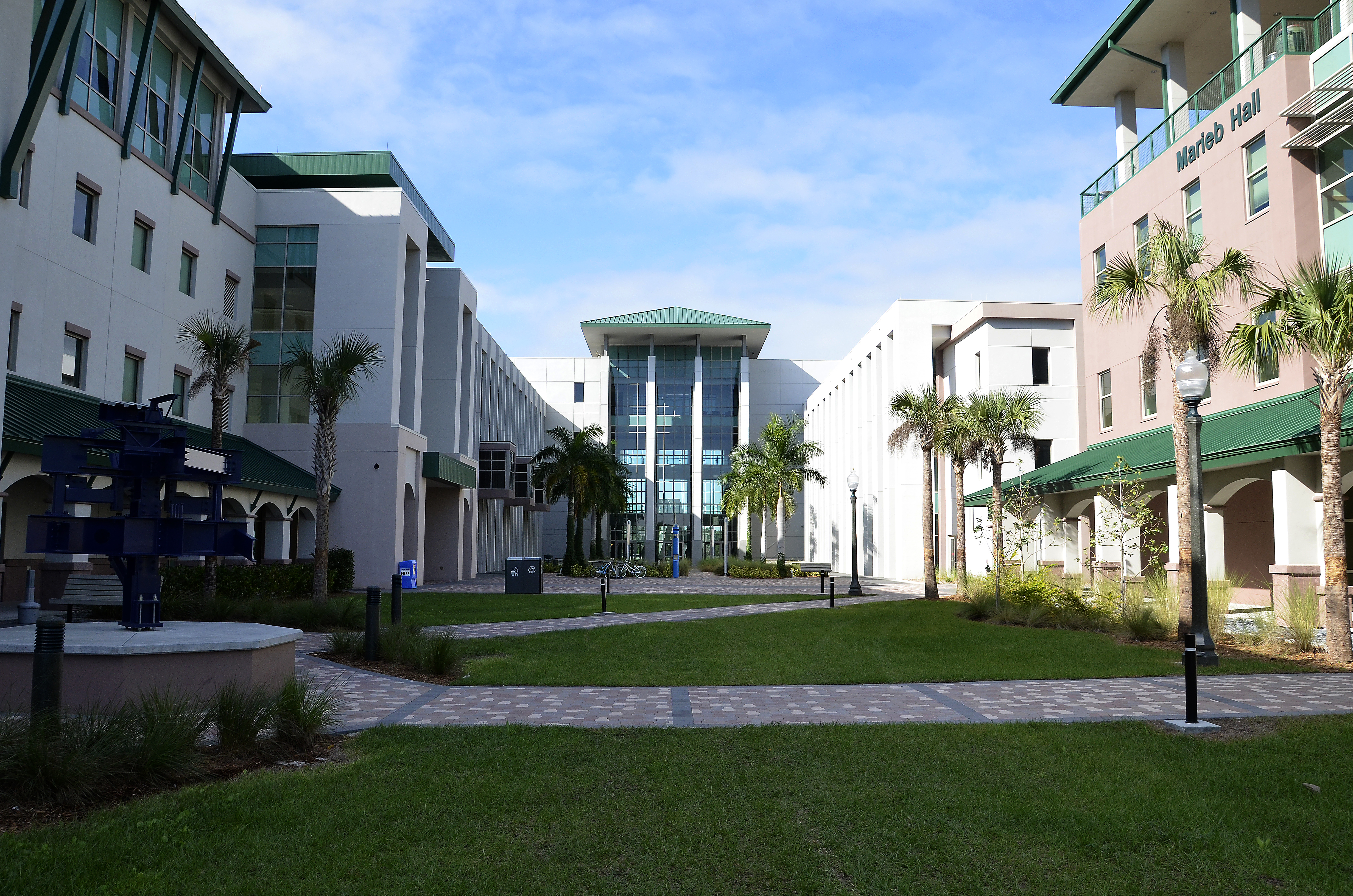 Some pictures from my visit to FGCU.